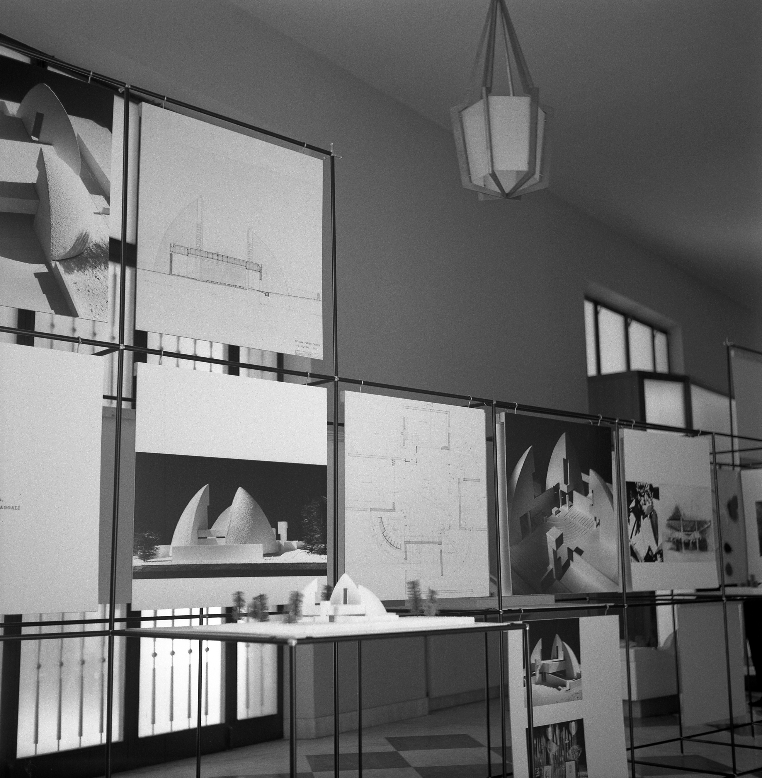 Exhibition presenting architectural projects in Africa, Vatican City. 1960s.